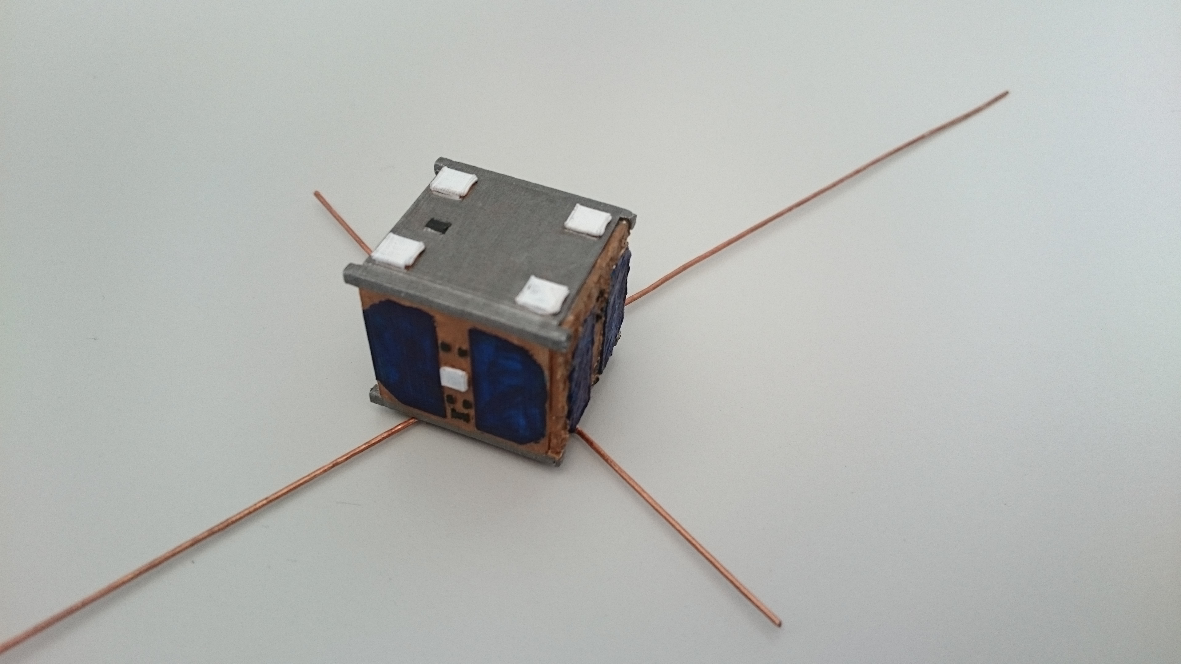 3D printed model of the nano-satellite CubETH. The scale is 1:4. The 5 GNSS antennas are in white, the solar panels are blue.